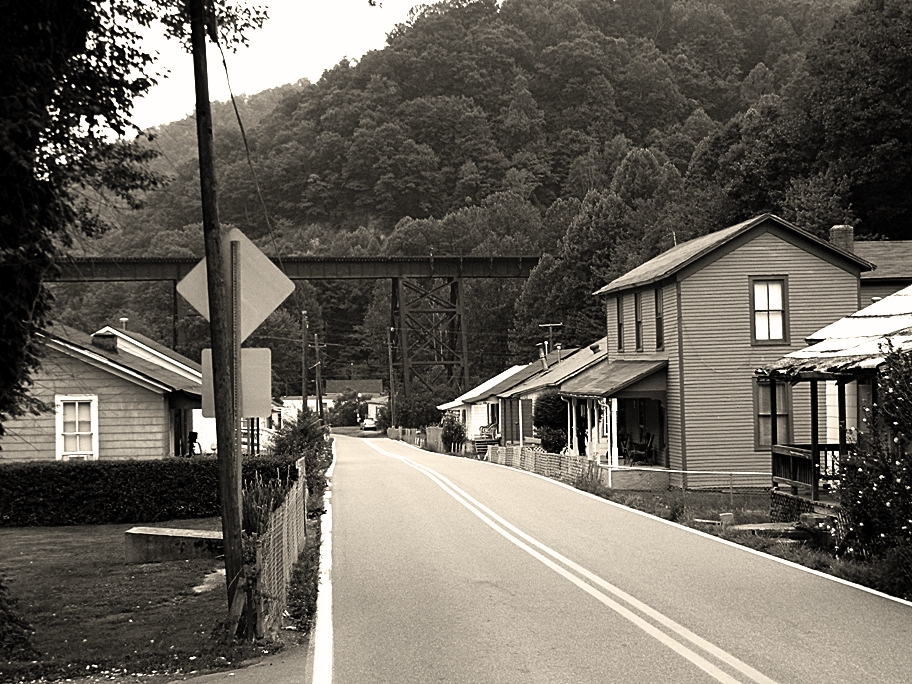 Slab Fork WV Town View